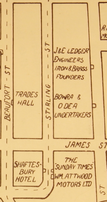 J and E Ledger Foundry on Pier Street, Perth, Western Australia in about 1933